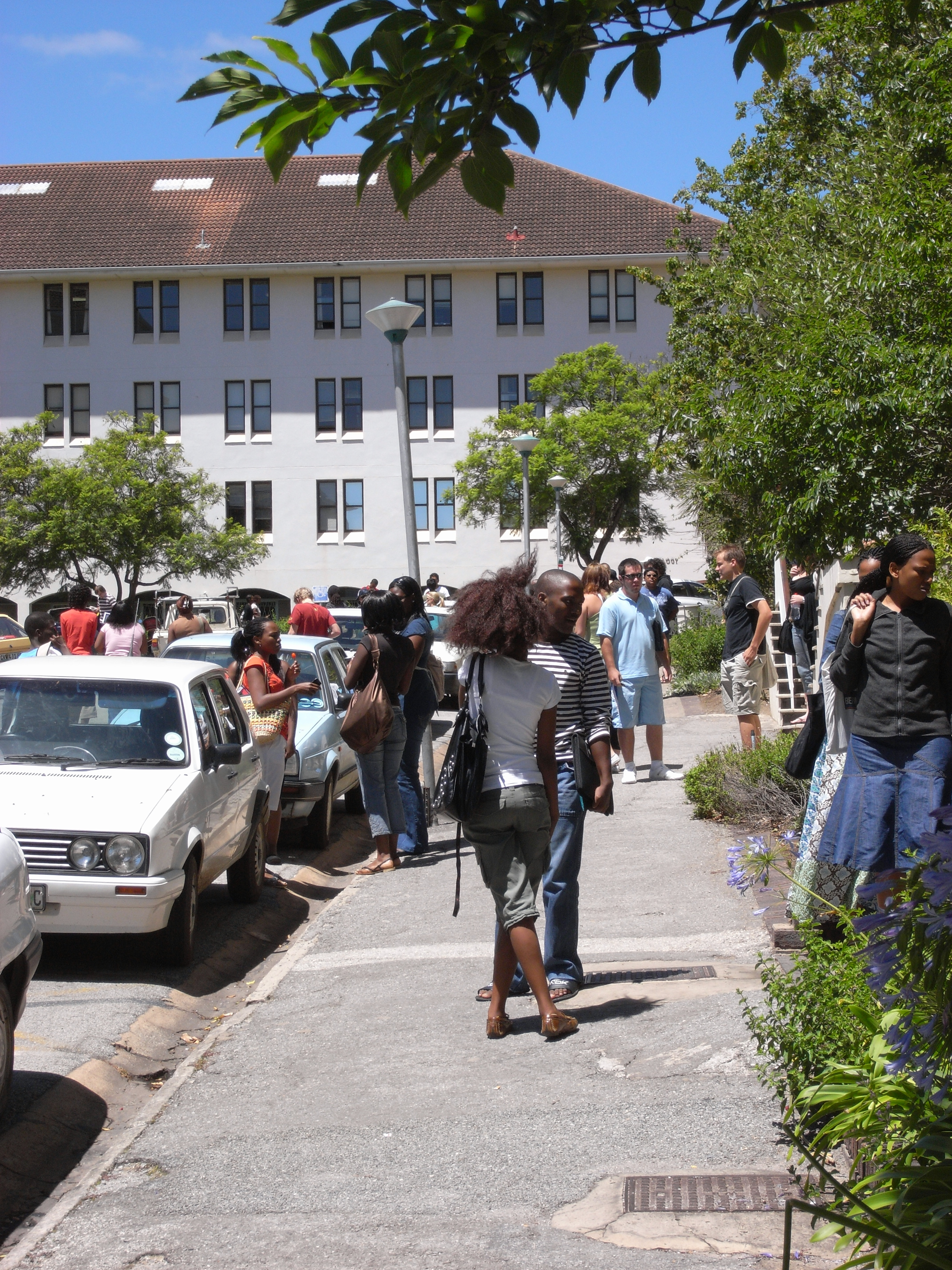 Rhodes University of Grahamstown, students (Eastern Cape, RSA)